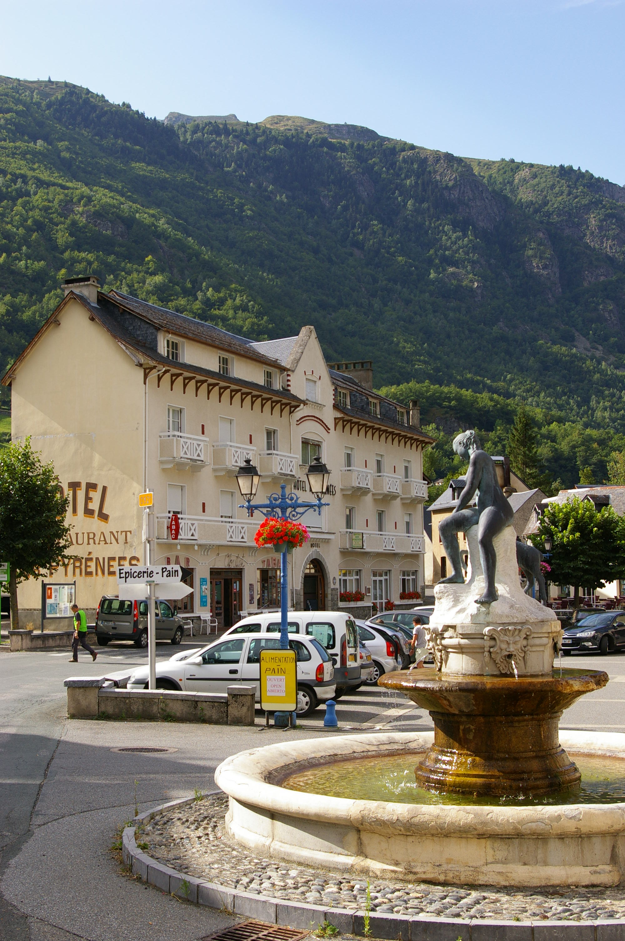 Gèdre, Dept. Hautes-Pyrénées.